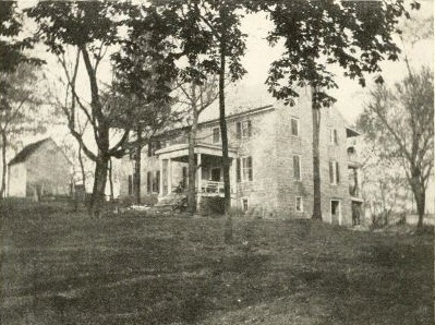 Bloomfielfd, a two story coursed limestone house, built in 1775 by Jacob LaRue (1744-1821) It is the oldest LaRue home still standing.